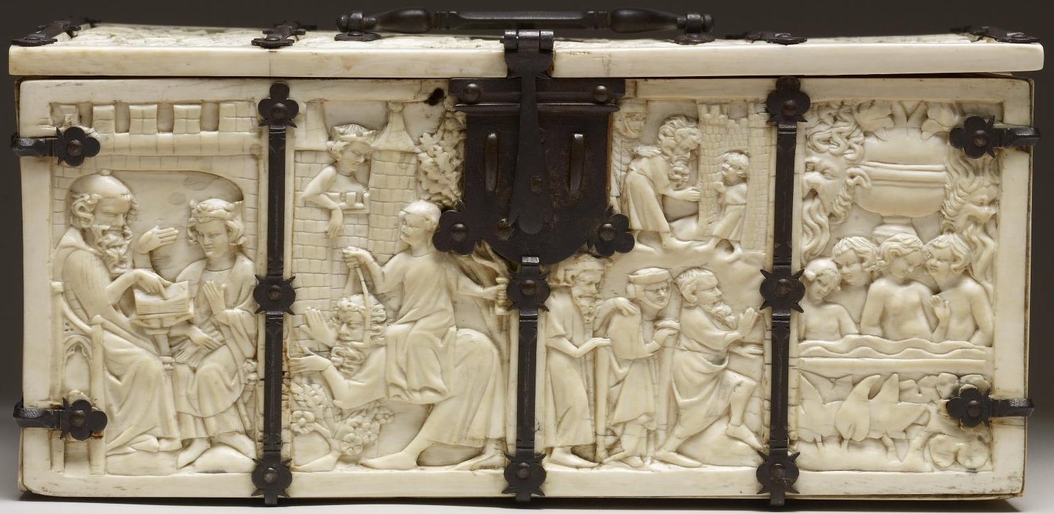 This splendid casket is carved with scenes from romances and allegorical literature representing the courtly ideals of love and heroism. In the center of the lid, knights joust as ladies watch from the balcony; to the left, knights lay siege to the Castle of Love, the subject of an allegorical battle. The remaining scenes on the casket are drawn from well-known stories about Aristotle and Phyllis, Tristan and Iseult, and tales of the gallant, heroic deeds of Gawain, Galahad, and Lancelot. The box may originally have been a courtship gift.